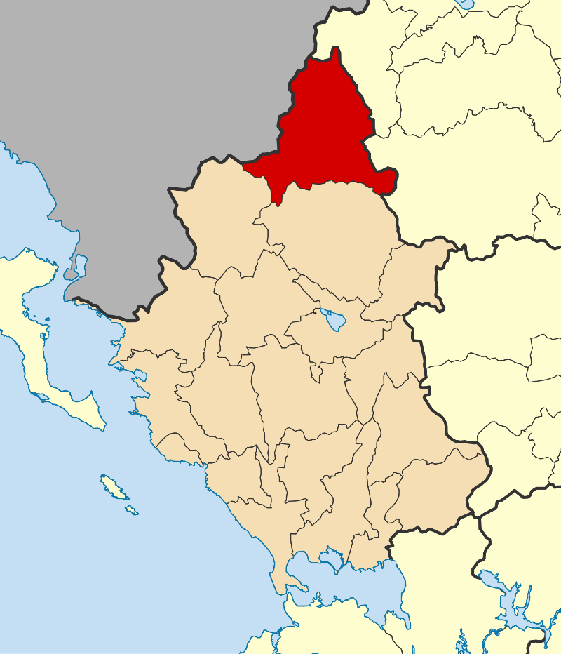 Locator map for Konitsa municipality in Greek region Epirus (2011)